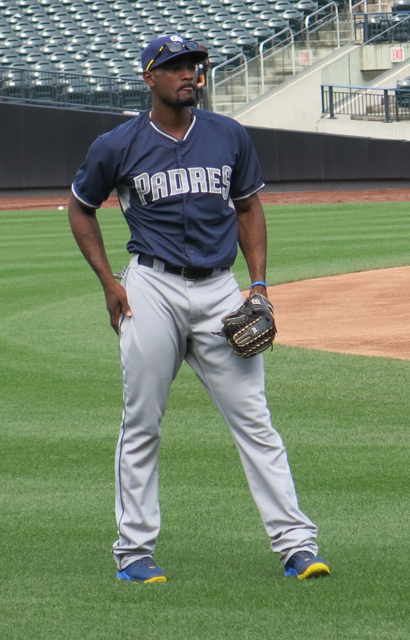 Jabari Blash of the San Diego Padres, August 12, 2016.